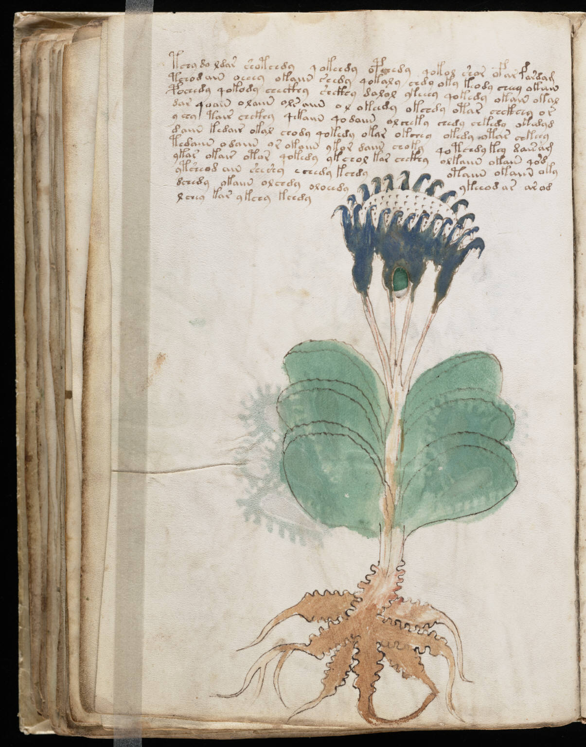 A page from the mysterious Voynich manuscript, which is undeciphered to this day.